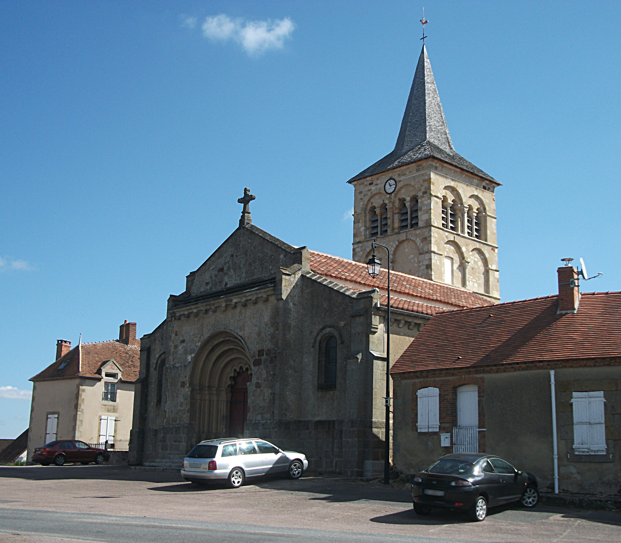 Church of Bizeneuille, Allier, Auvergne-Rhône-Alpes, France. [16697]